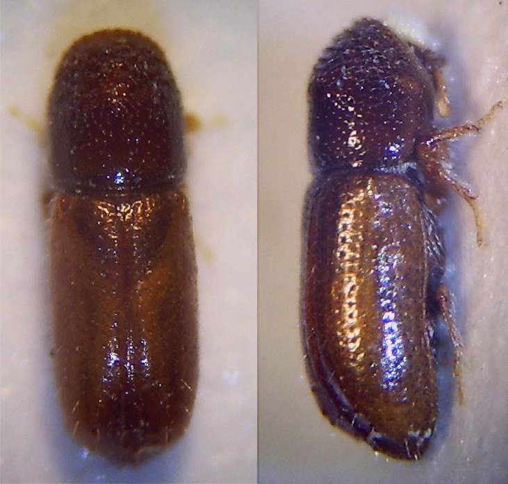 Pityophthorus_pityographus_female.